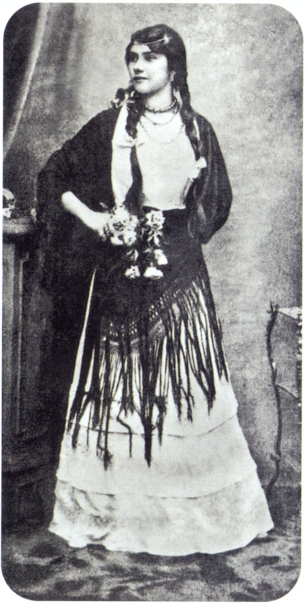 Eliza Lynch, long time companion of Paraguayan dictator Francisco Solano López, c.1855